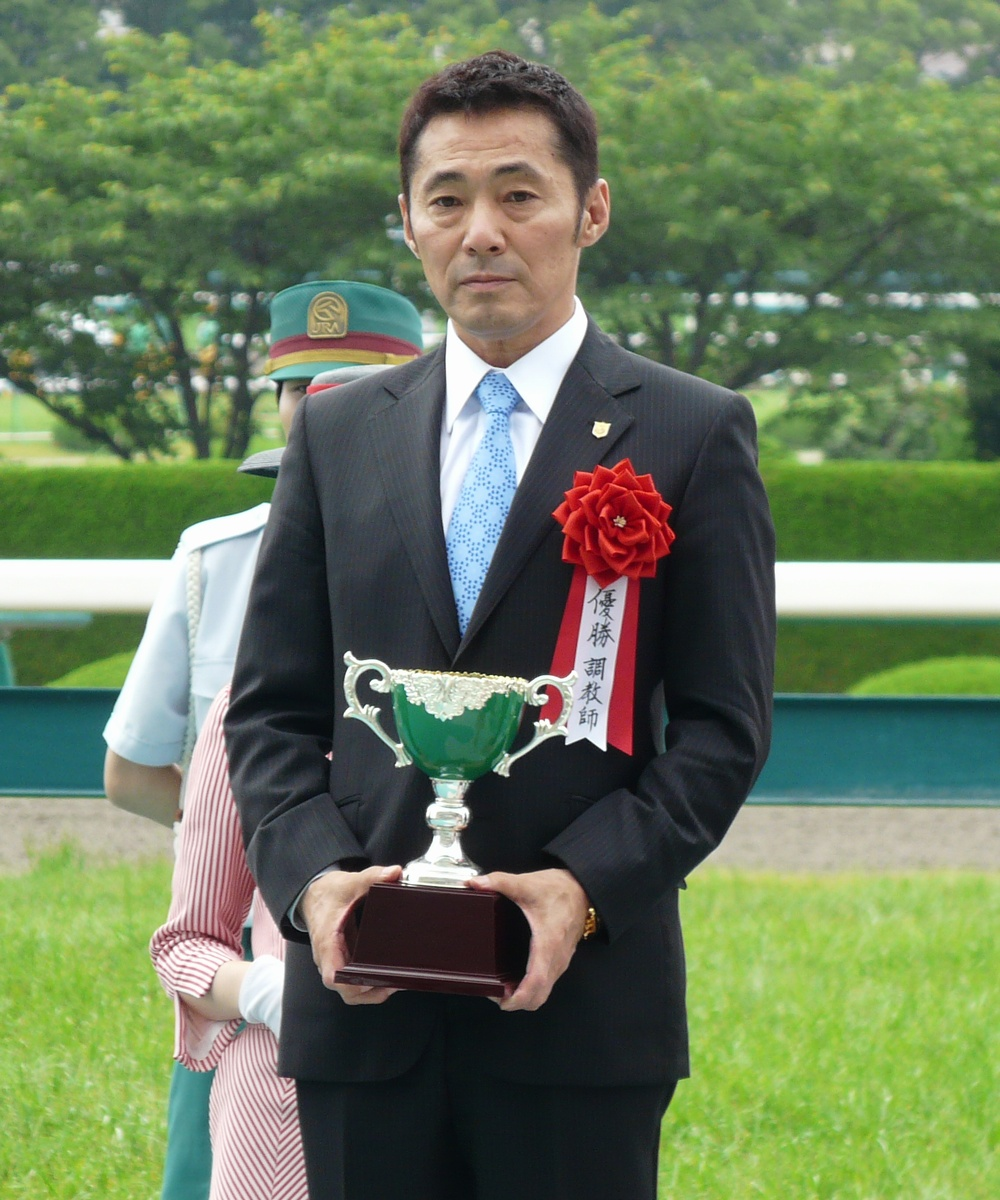 Masaru-Honda20110619